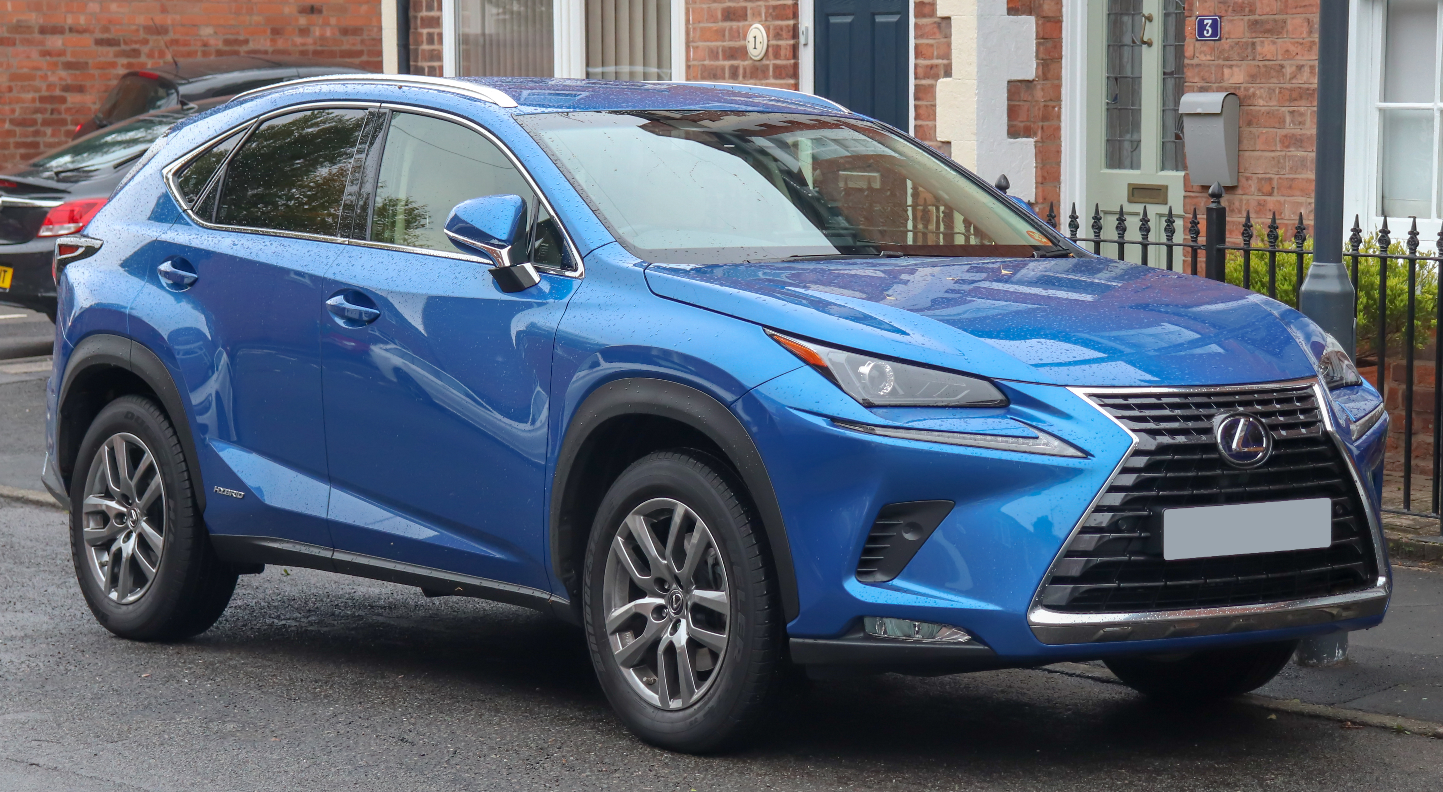 2017 Lexus NX 300h Luxury CVT 2.5 Front Taken in Warwick